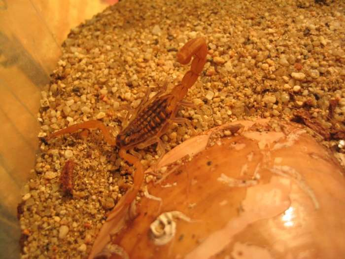 Buthus occitanus